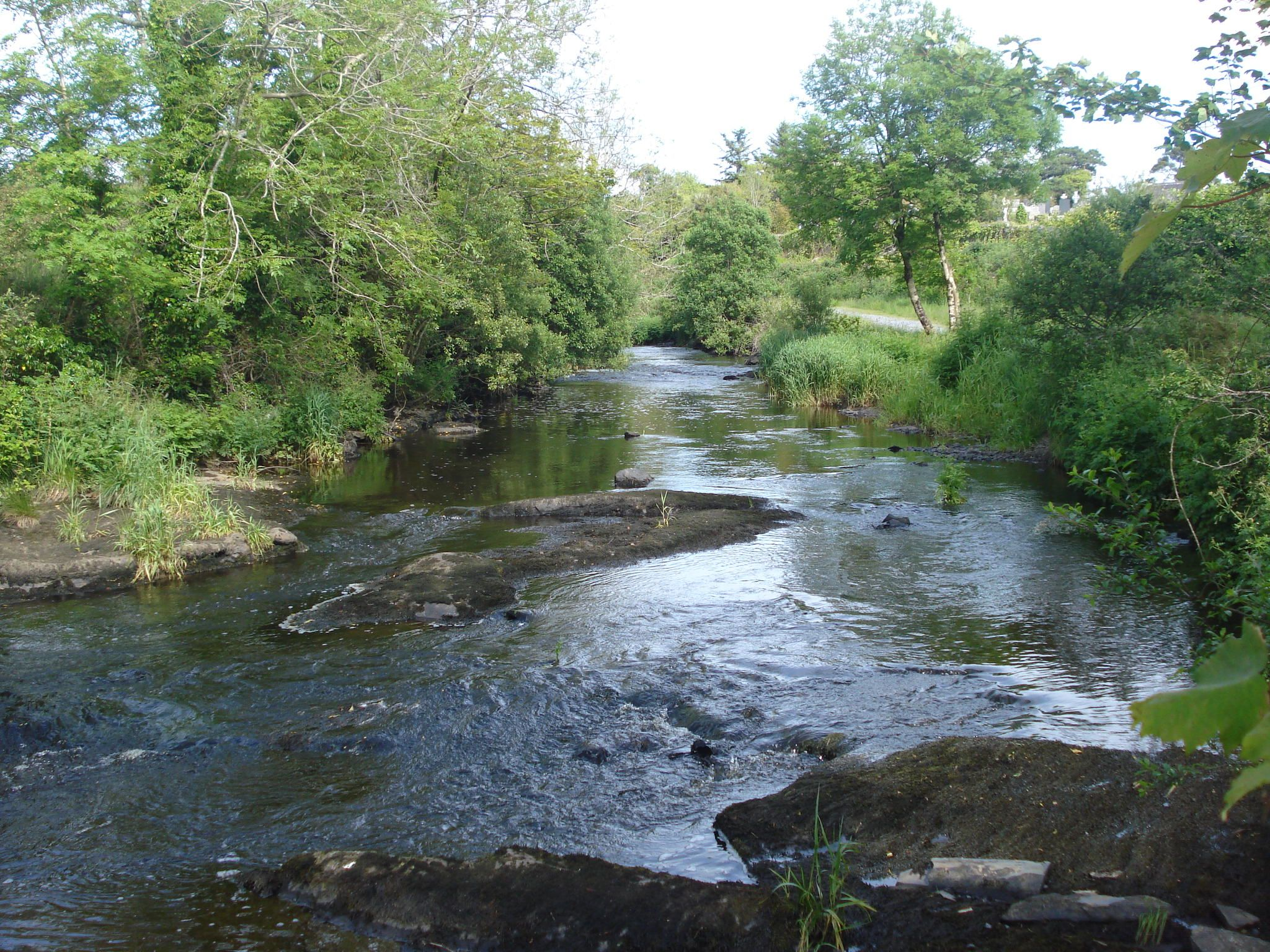 Inagh River, view upstream